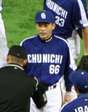 Hiromitsu Ochiai, manager of the Chunichi Dragons, at Tokyo Dome.